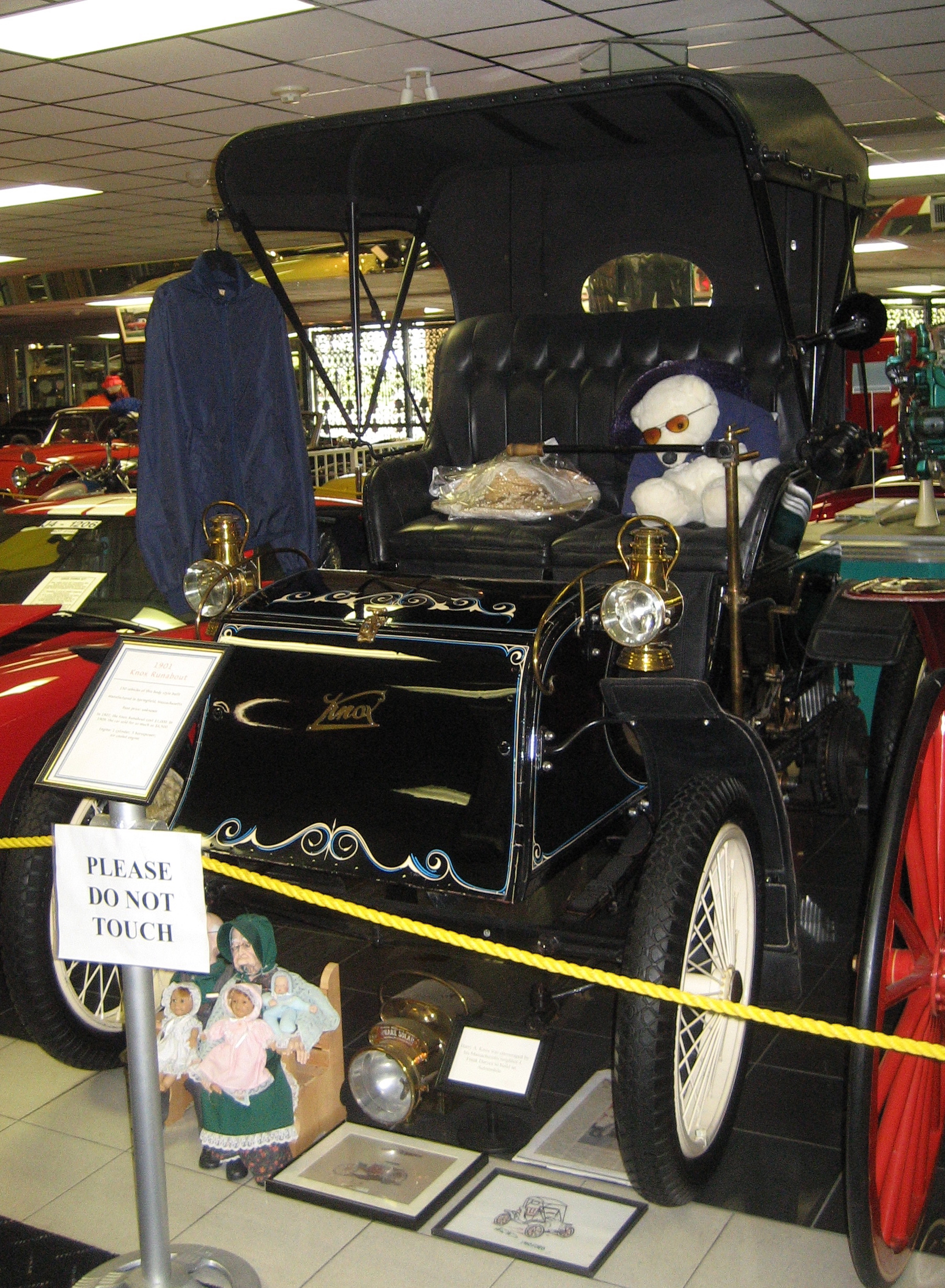 1901 Knox Runabout on display at Tallahassee Automobile Museum with unfortunate accumulation of irrelvent kitch.